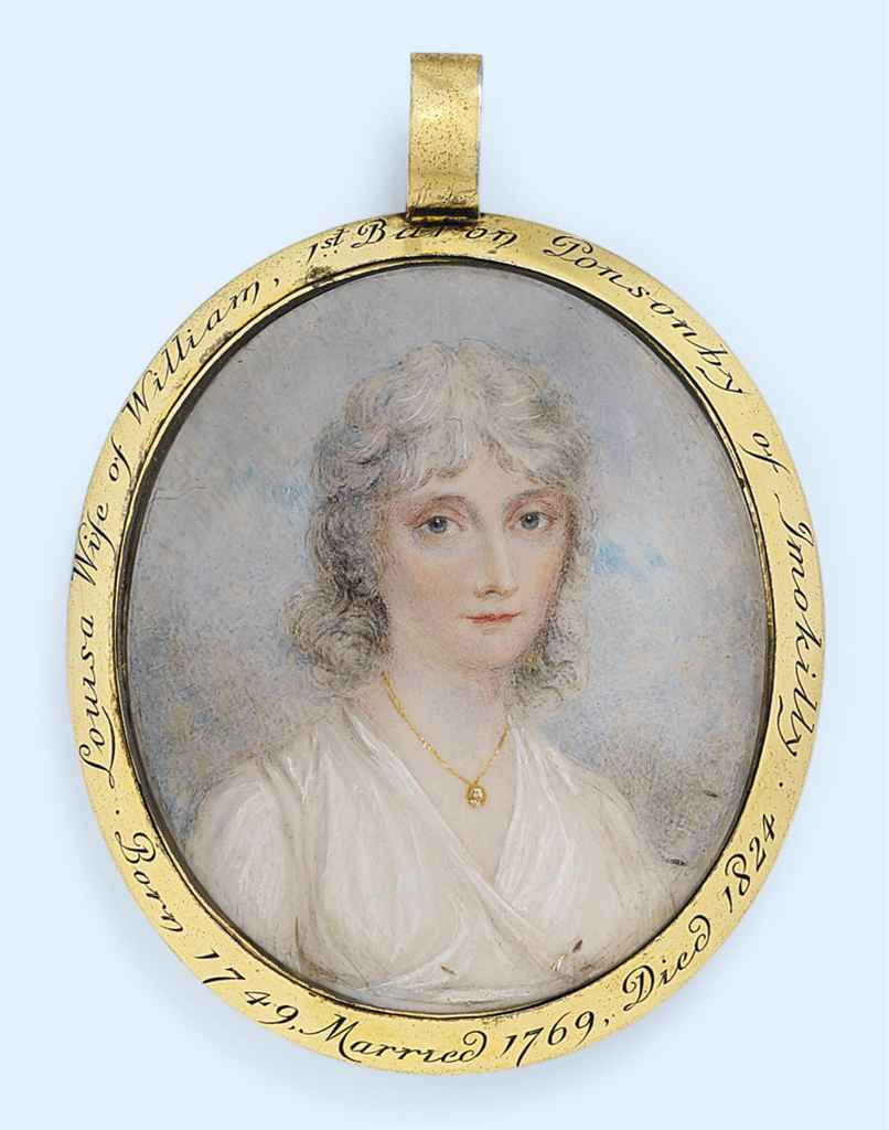 Louisa, Baroness Ponsonby of Imokilly (1749-1824) frame engraved with 'Louisa Wife of William, 1st.. Baron Ponsonby of Imokilly . Born 1749, Married 1769, Died 1824.', reverse engraved with 'Daughter of Richard 3rd.. Viscount Molesworth, Mother of Mary Elizabeth. Countess Grey, Lady Ponsonby by E.C.'